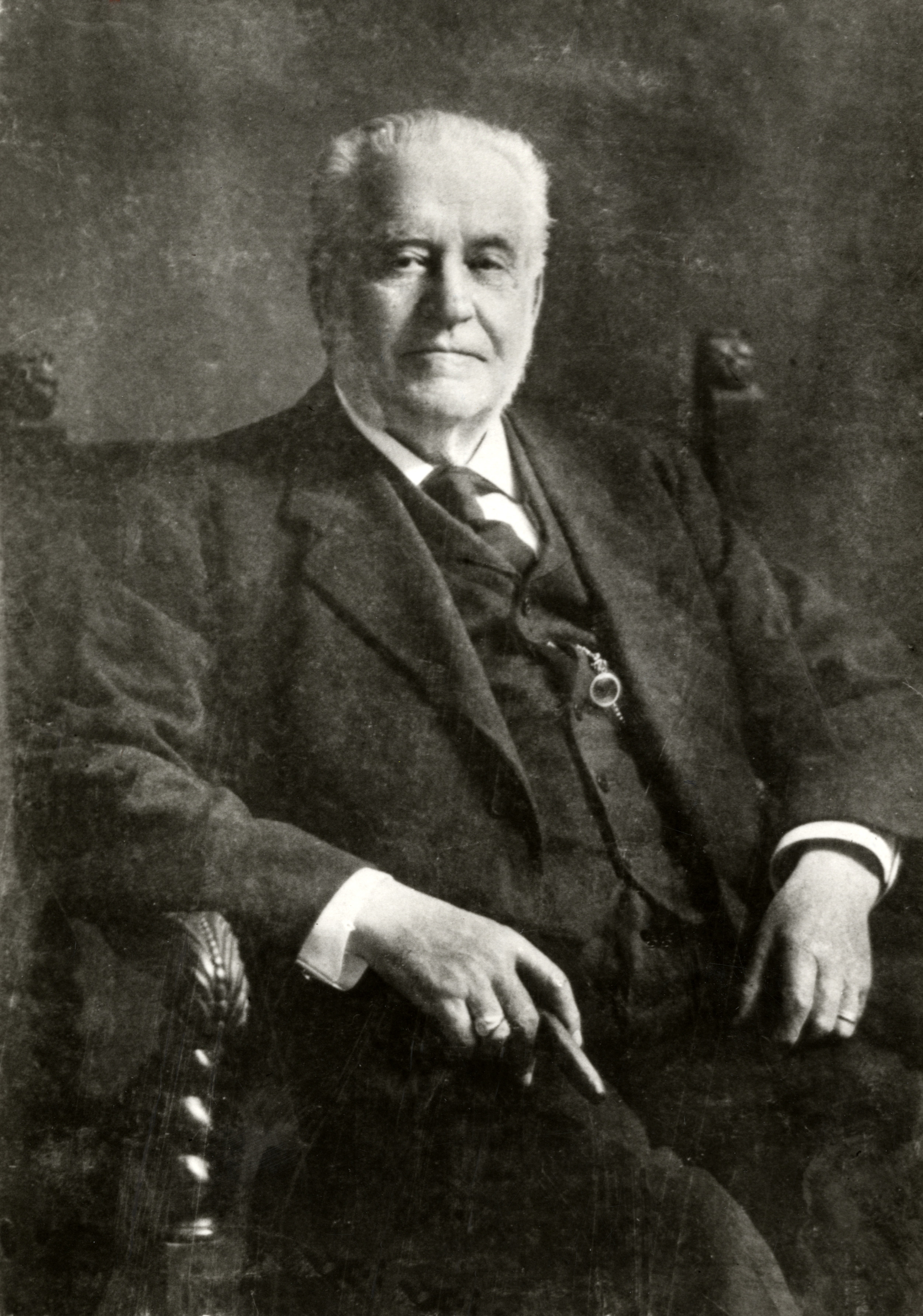 Lodewijk Pincoffs (1827-1911). Photographer unknown, photograph probably taken before 1880.